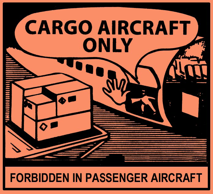 "Cargo Aircraft Only" label since 2013